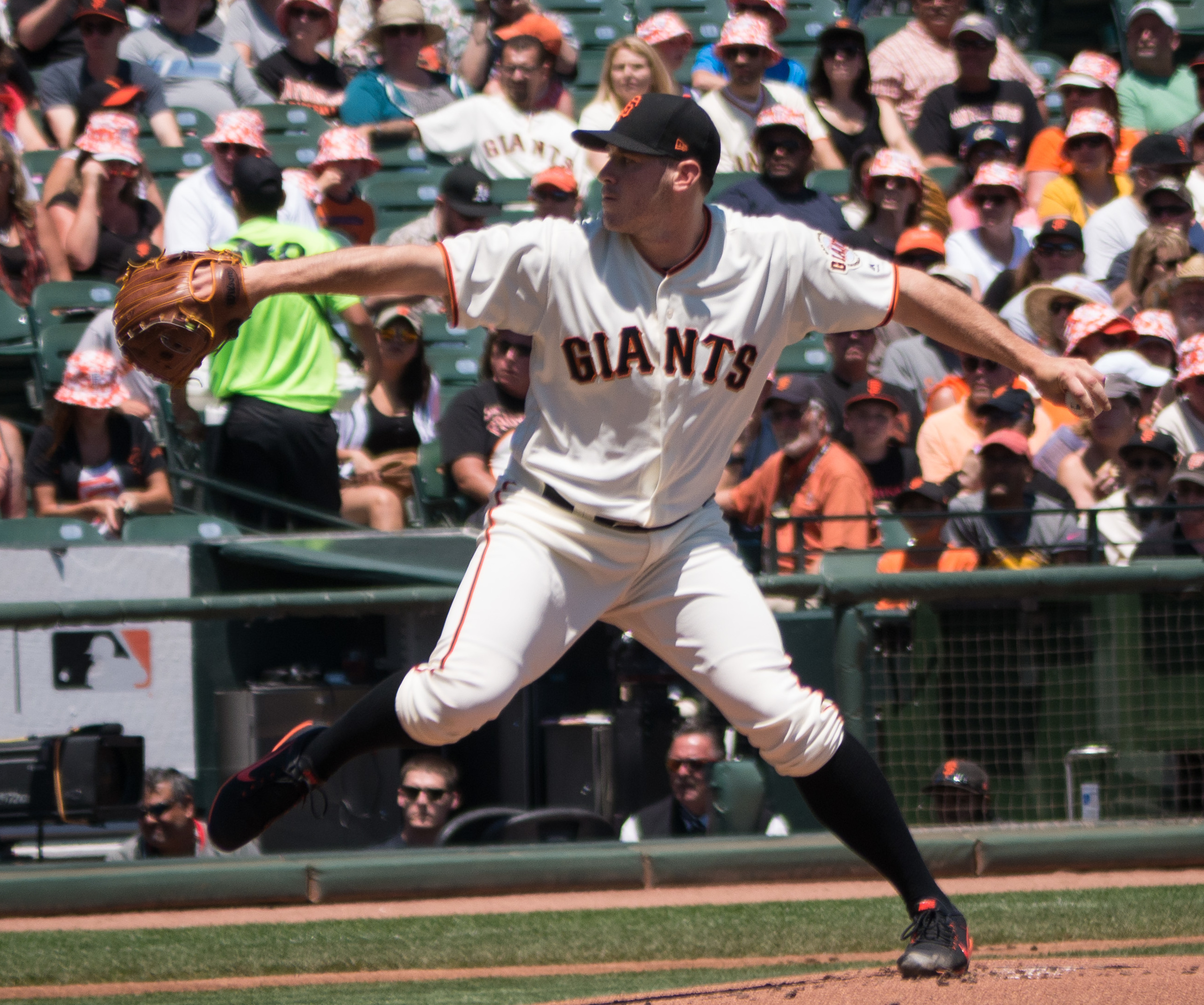 Ty Blach pitching for the San Francisco Giants against the San Diego Padres on July 24, 2017.